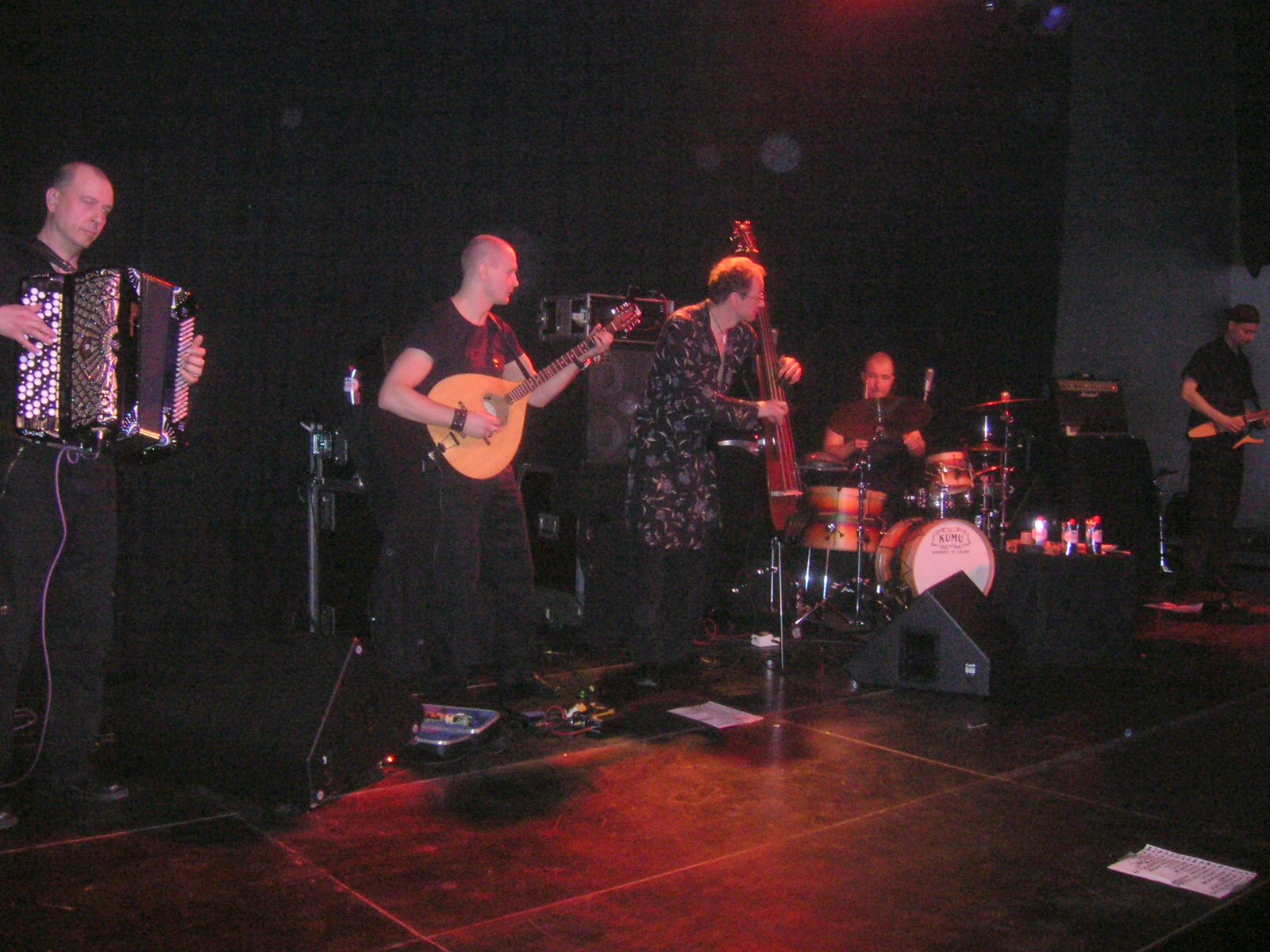 male members of the Finnish folk-pop band Värttinä